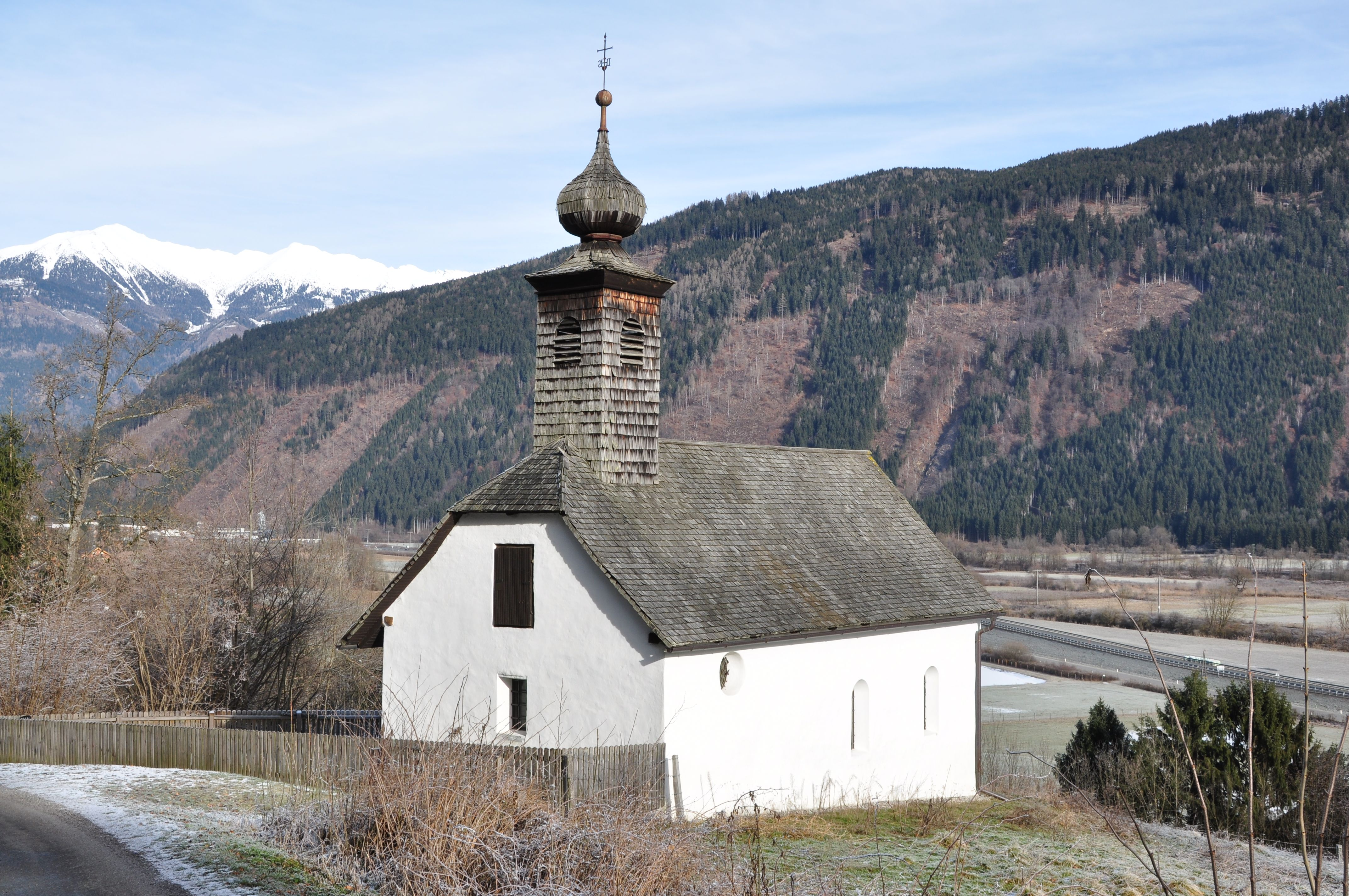 Subsidiary church Saint Rupert at Obergottesfeld, municipality Sachsenburg, district Spittal an der Drau, Carinthia / Austria / EU